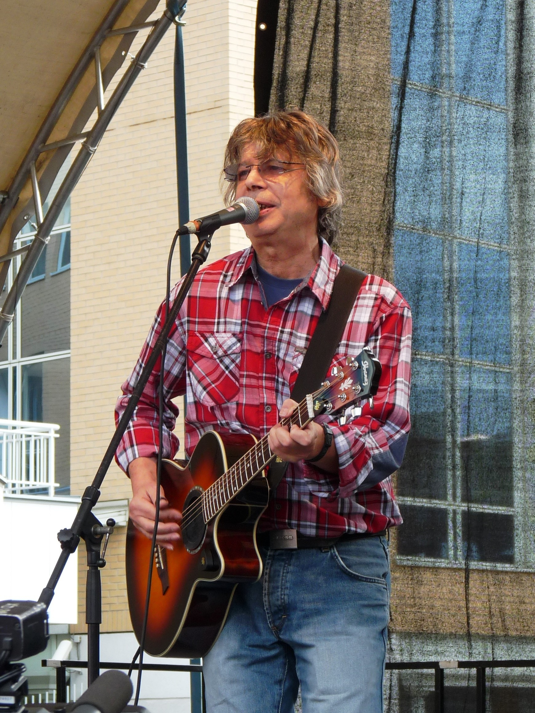 János Bródy (1946– ) Hungarian singer, musician, composer and songwriter, on the Day of Hungarian Song in 2010.